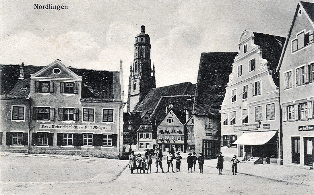 Postcard, dated 29.3.1918. Title: "Nördlingen"